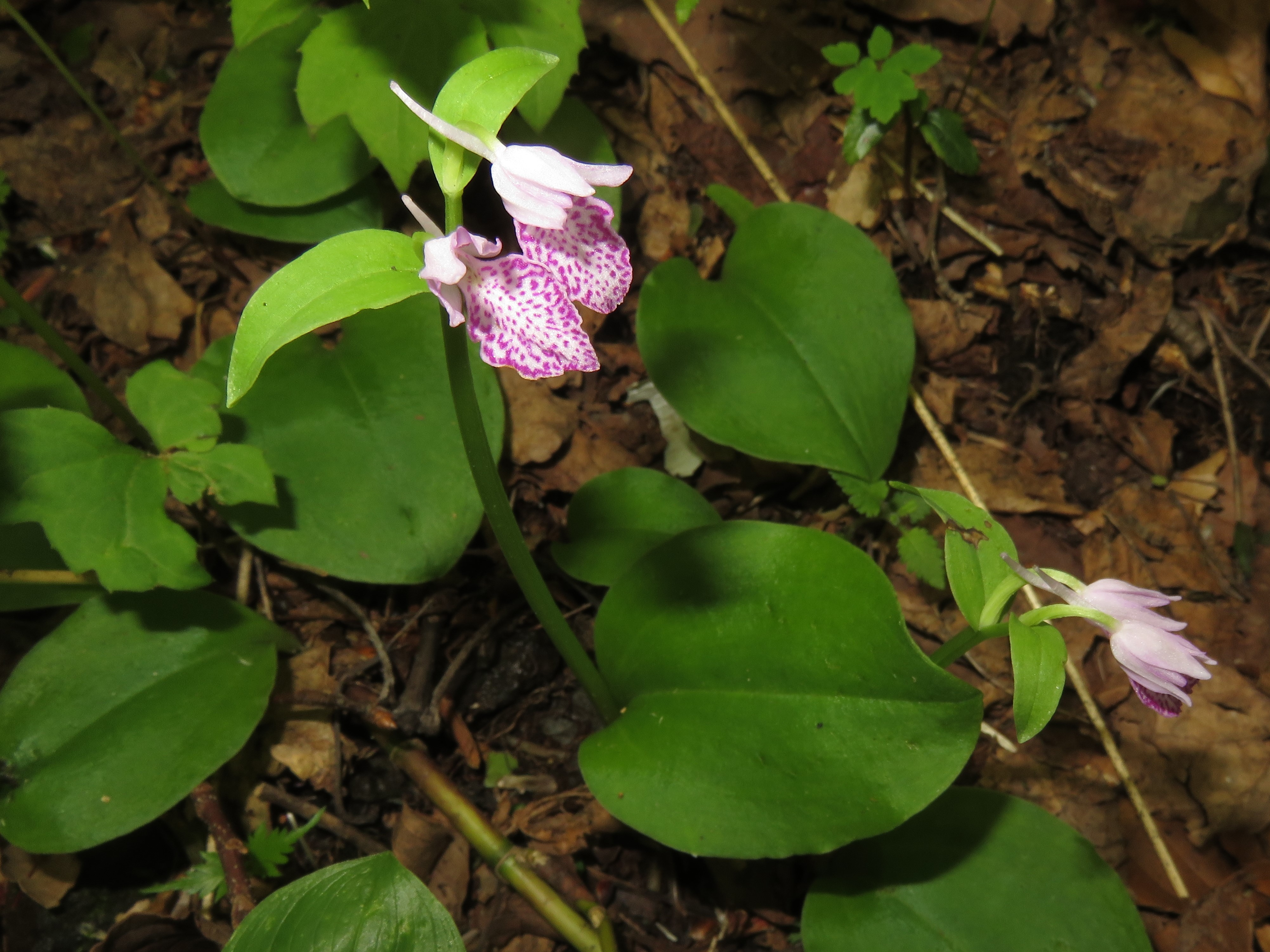 Galearis cyclochila, North area, Tochigi pref., Japan